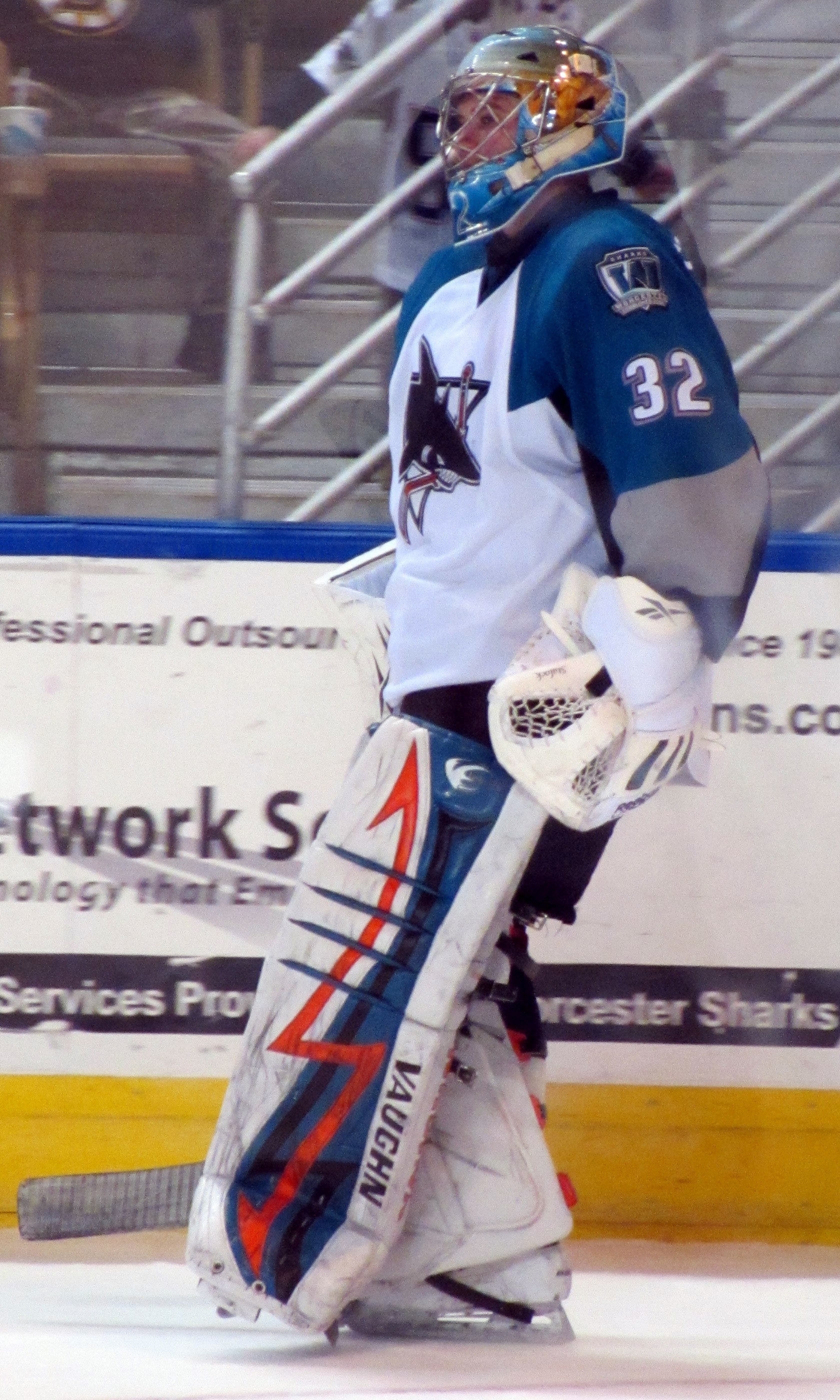 Alex Stalock in the Worcester Sharks jersey.